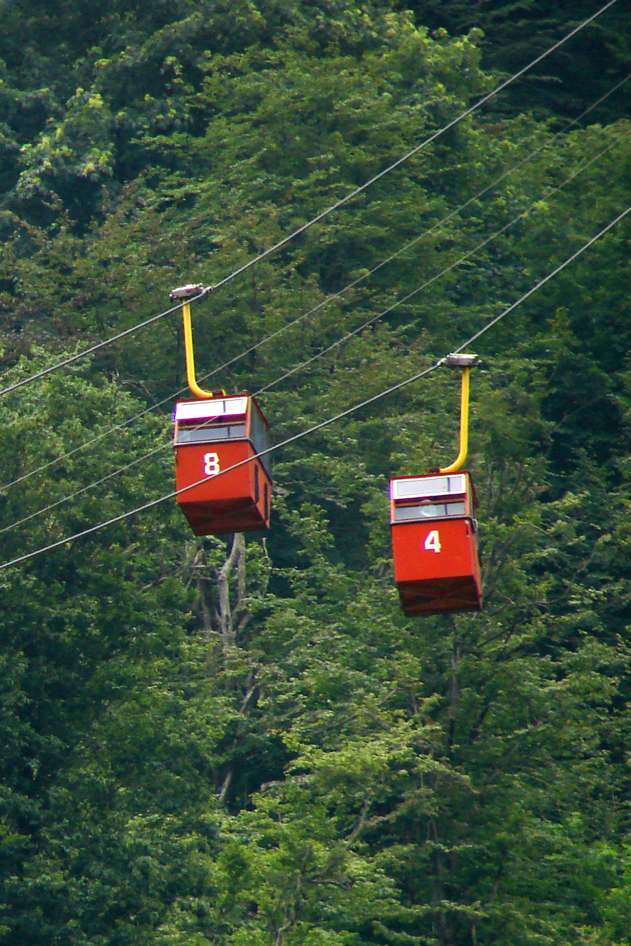 Shahrak-e Namak Abrud is a touristic village and has an aerial tramway which starts at the sea level near the shores of the Caspian Sea and ends on the top of the Alborz heights crossing dense forest area of northern Iran. There are numerous villa cities around it which form a vacation region for the people of Tehran.